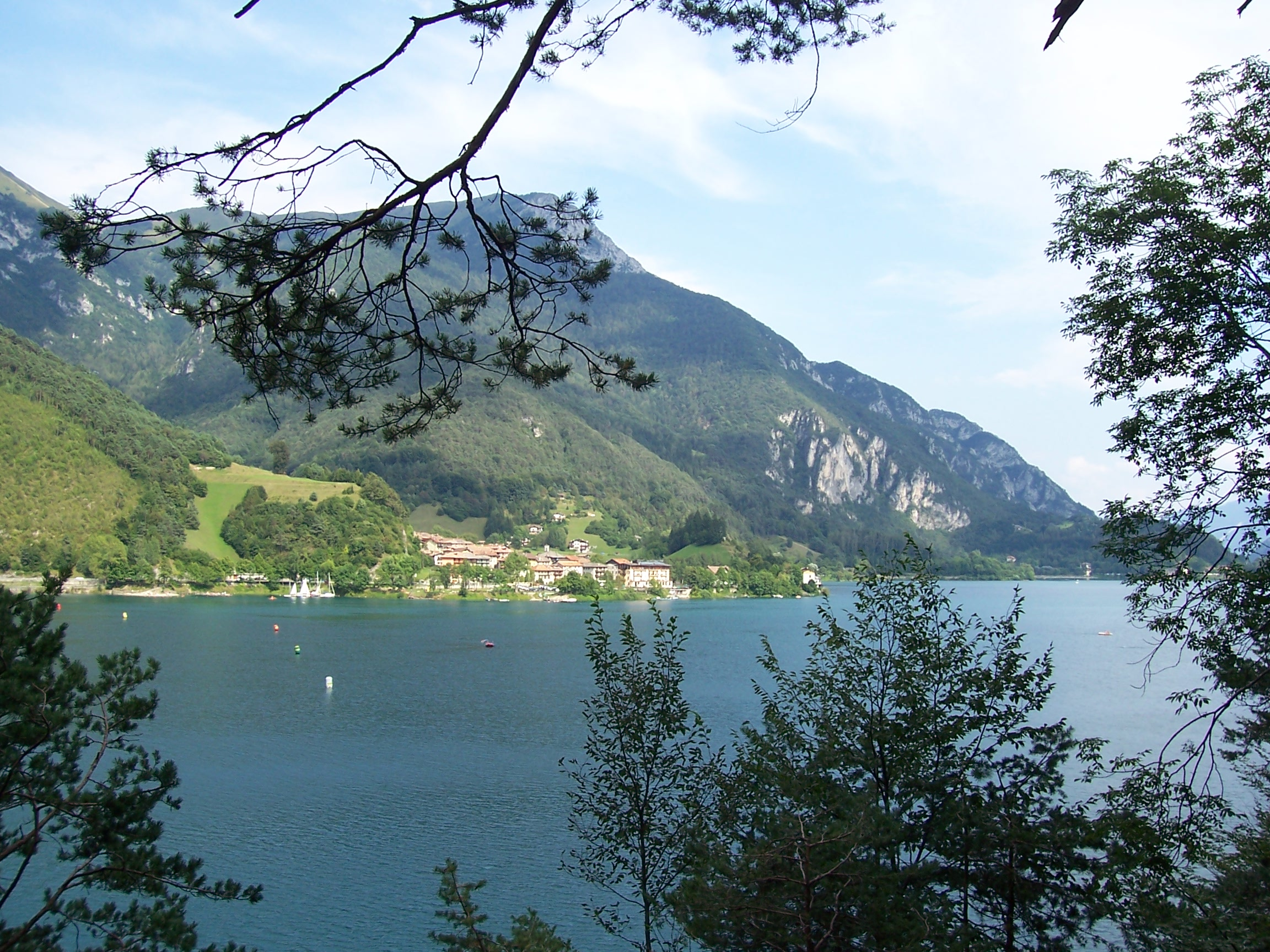 Mezzolago, part of Pieve di Ledro